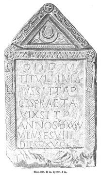 Funerary inscription for Titullinia Pussitta, found 1788 , Netherby (GB).